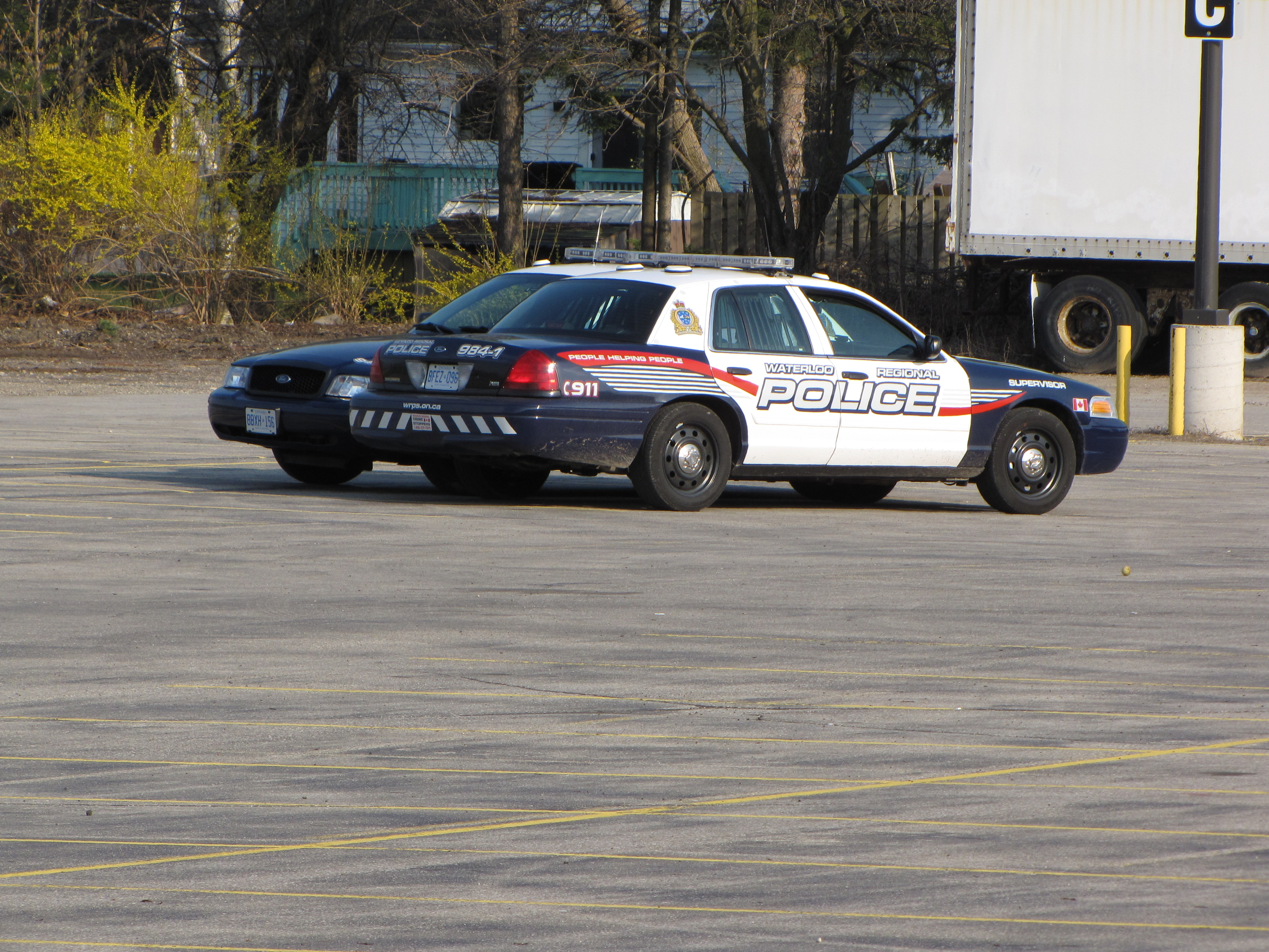 A pair of police cars for the Waterloo Regional Police Service